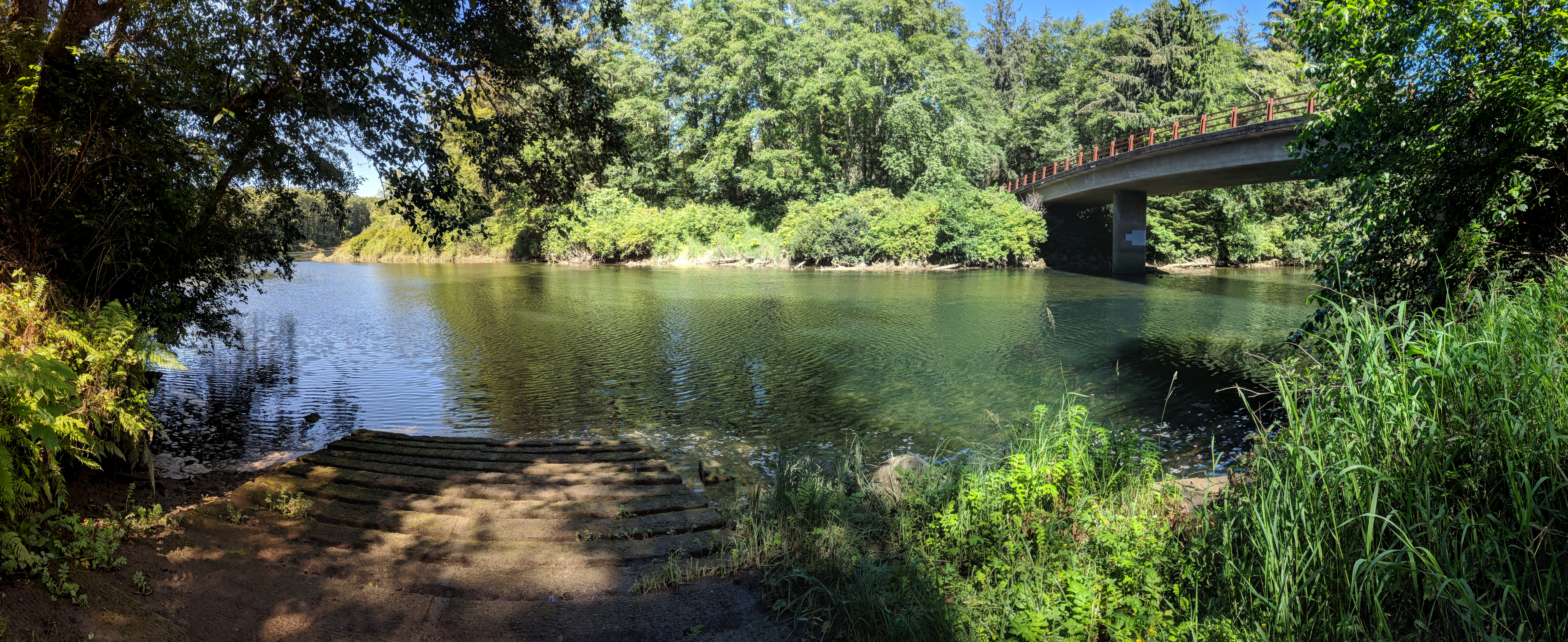 Panoramic view of the final stretch of the Dickey River, from the Mora Road bridge at right to the confluence with the Quillayute at left